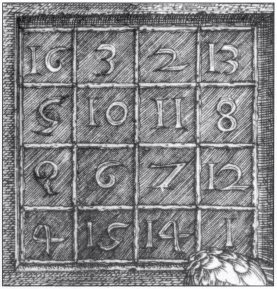 Melencolia I (detail: magic square); 2nd row begins with "5", 3rd row with "9"; in the last row you can see the year 1514